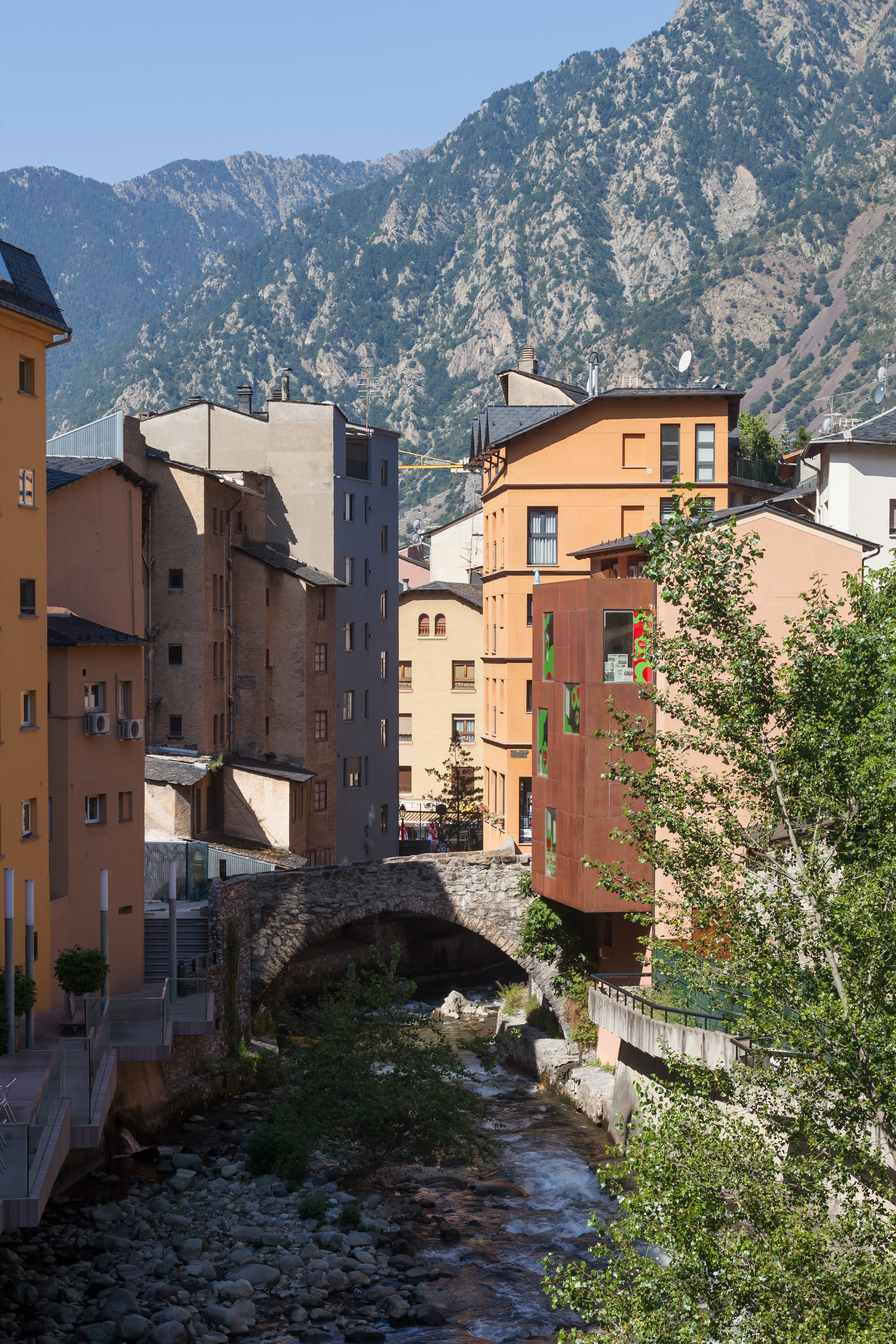 Bridge over Valira river, Escaldes-Engordany, AndorraGalego: Ponte sobre o río Valira, Escaldes-Engordany, Andorra